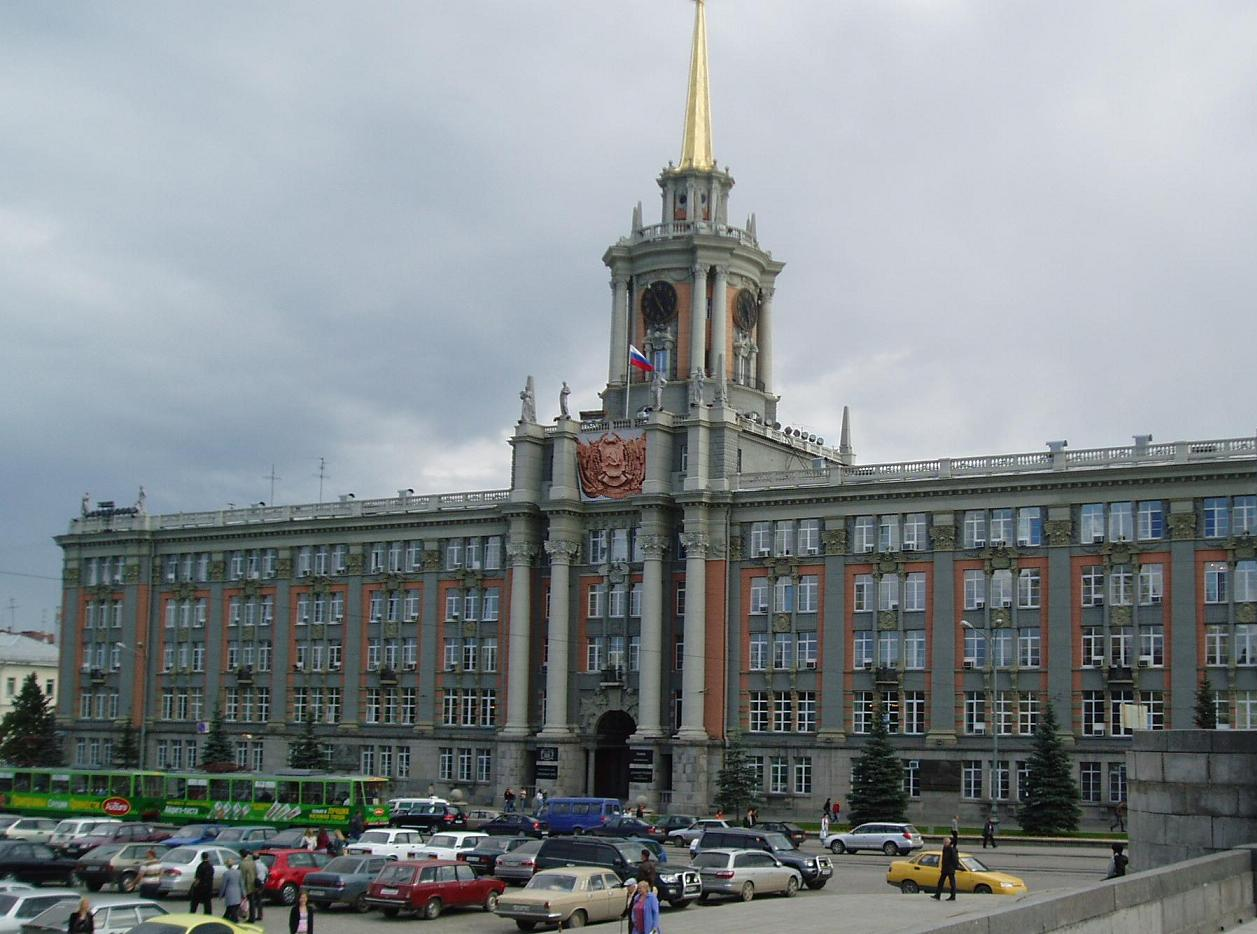 Duma building in the Russian city of Yekaterinburg